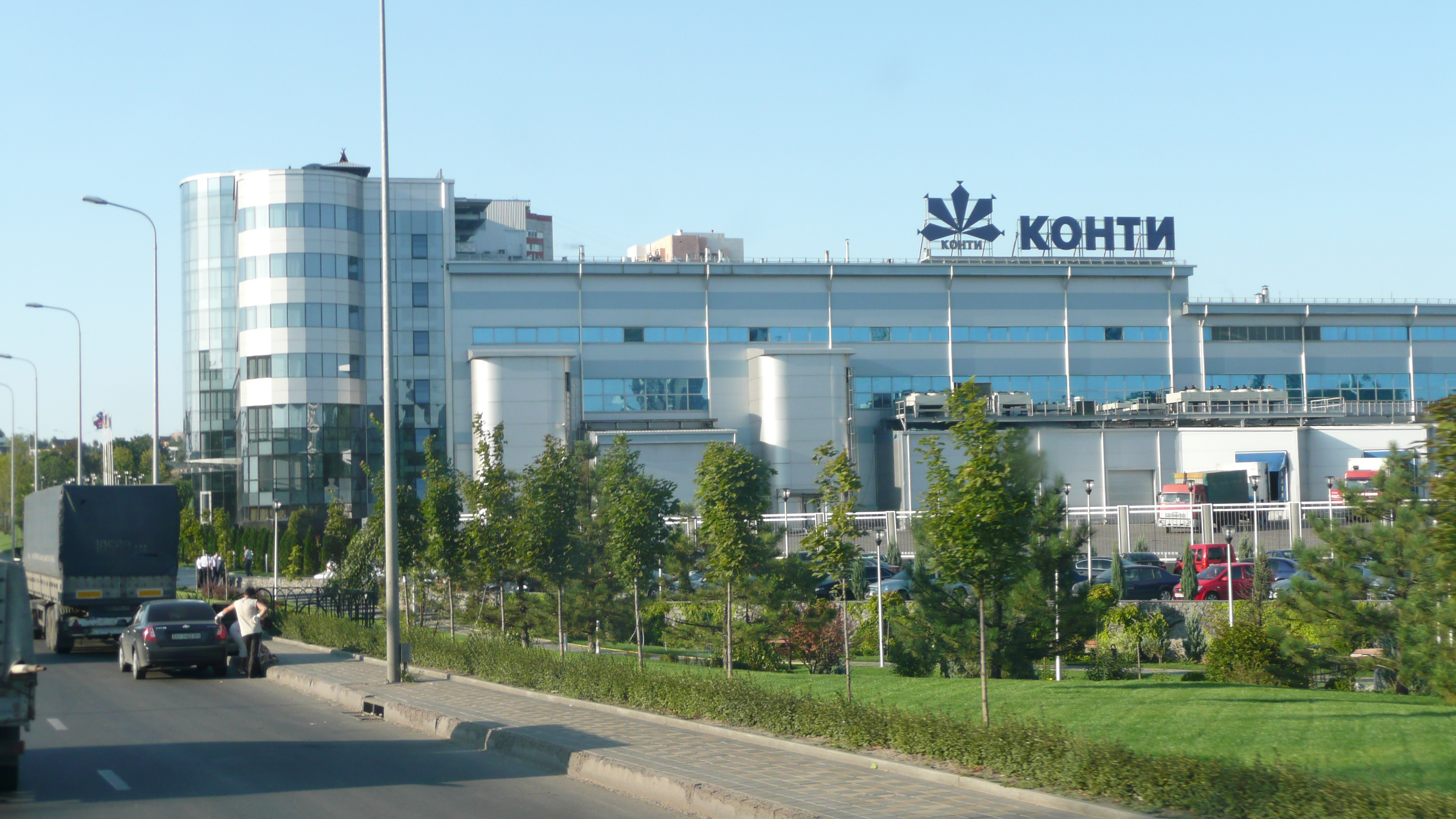 Konti factory in Donezk